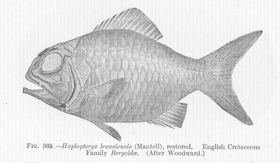 Hoplopteryx lewessiensis (Manfall), restored. English Cretaceous Family Berycidae Subject: Beryciformes Tag: Fish